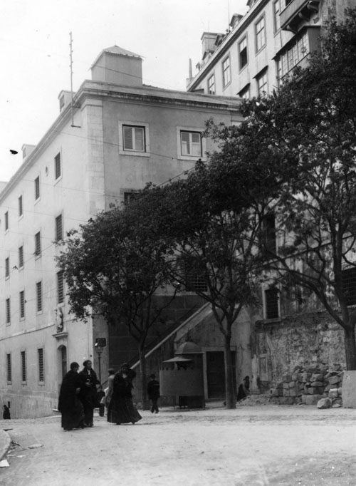 Aljube Sec. XX